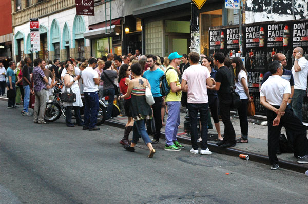 The gallery 31GRAND on Ludlow Street during an art opening